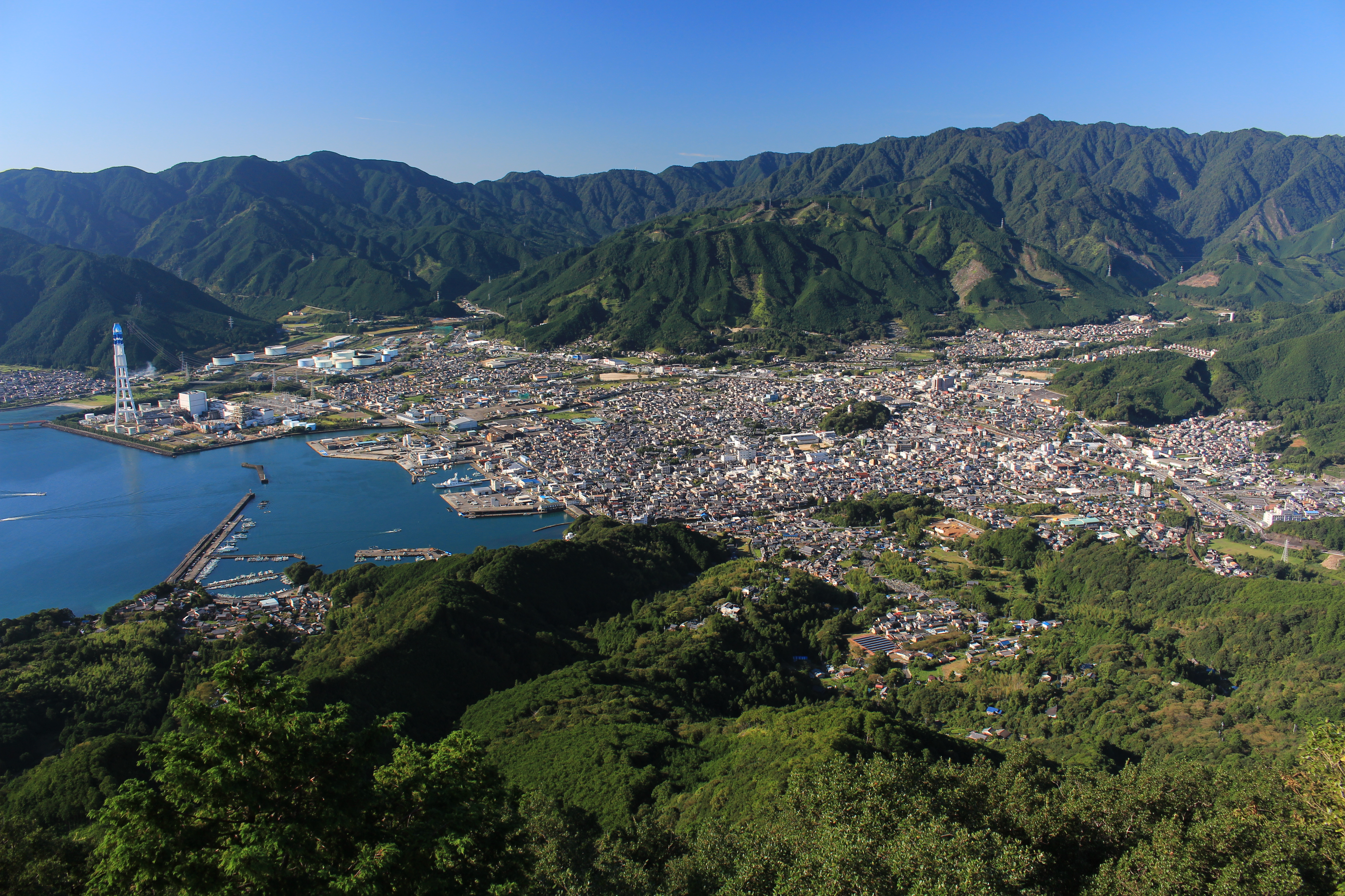 Center of Owase city and Mount Takamine seen from Mount Tengura, in Mie prefecture, Japan.